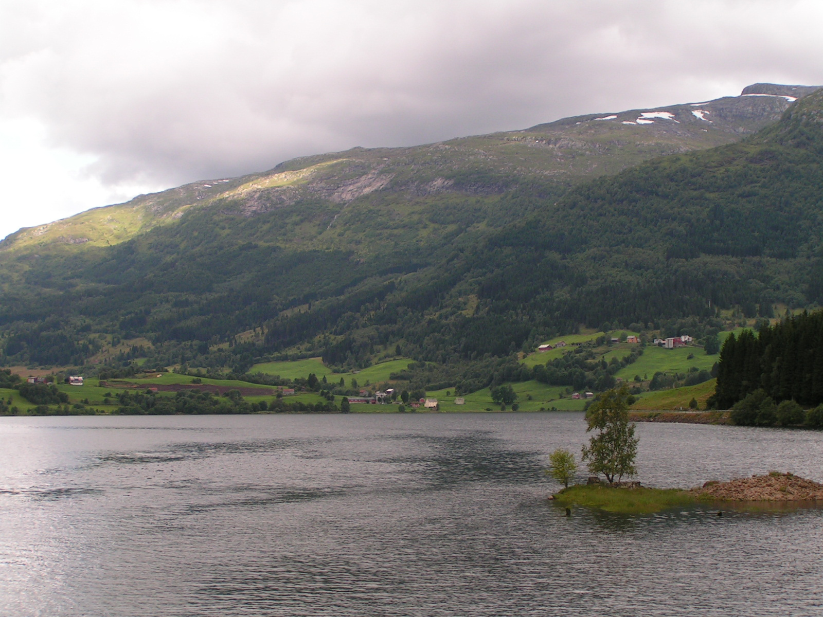 The lake Viksdalsvatnet in Gaular municipality in Sogn og Fjordane county in Norway.